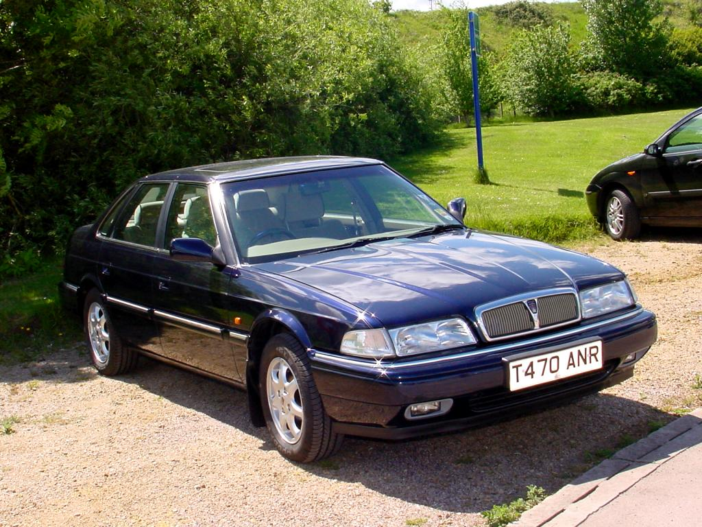 A blue Rover 800 Mk2. Metro 30th Anniversary at Heritage Motor Centre, Gaydon, UK